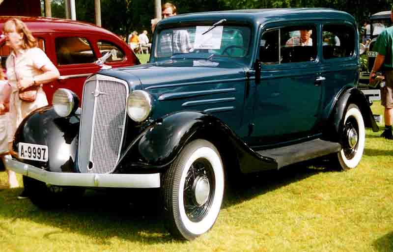 1934 Chevrolet Standard Series DC Coach